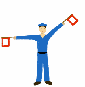 Letter Q of the nautical semaphore flag signalling system Source: Martin Hawlisch (User:LosHawlos) My own drawing done in gimp First uploaded to de: in jun-2004